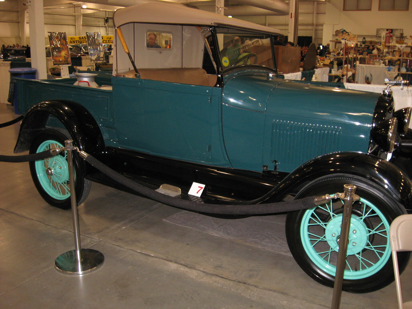 1928 Ford roadster pickup from local gun/car show